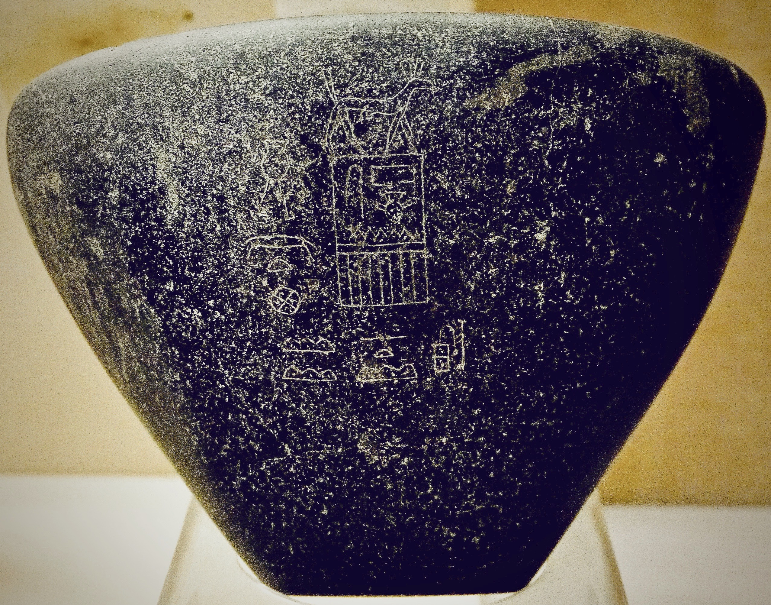 Stone vase inscribed with the titulary of Seth Peribsen, Musee des Antiquites Nationales, St Germain en Laye.